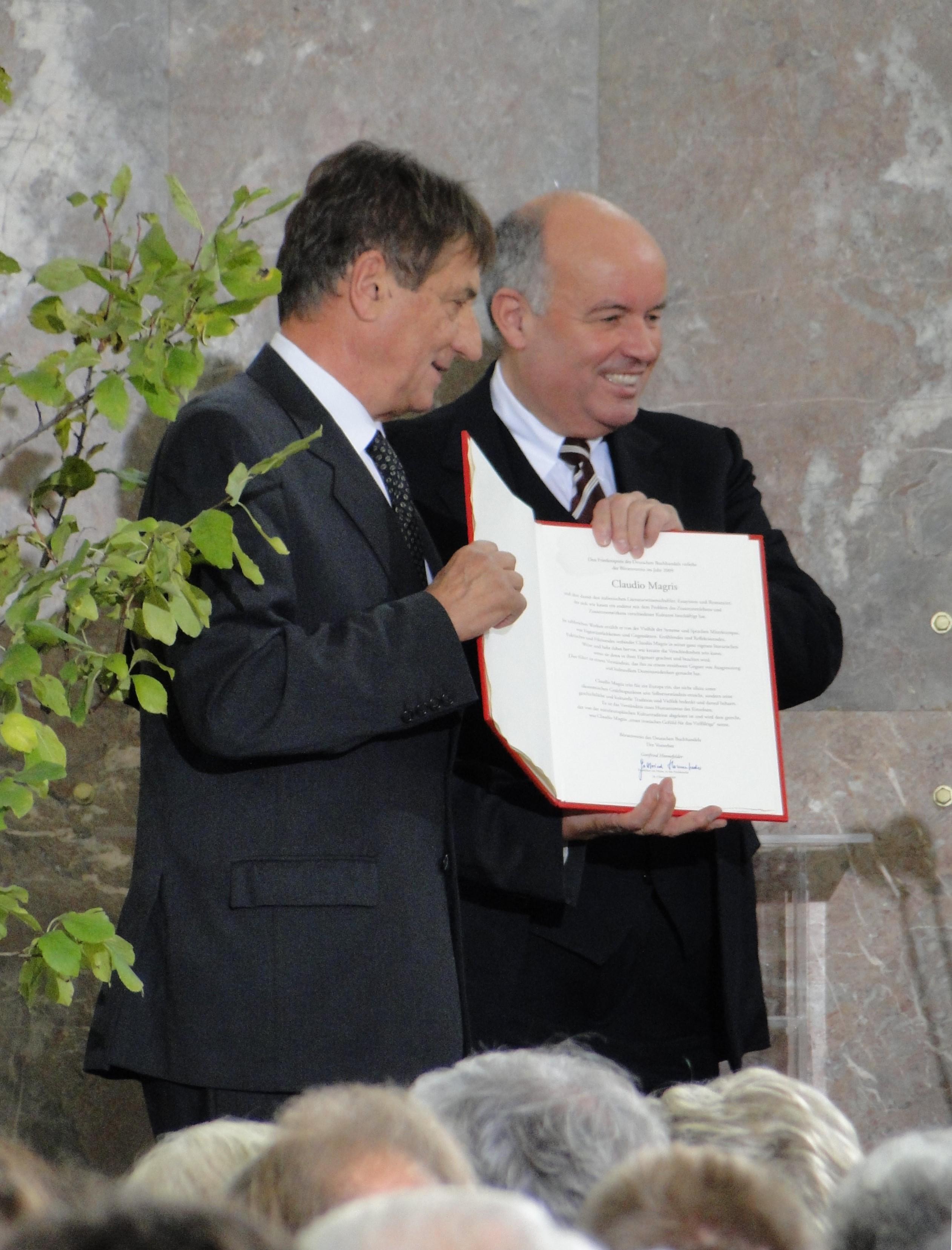 Claudio Magris and Gottfried Honnefelder present the award document (2009) photo-journalists at "Paulskirche" in Frankfurt am Main